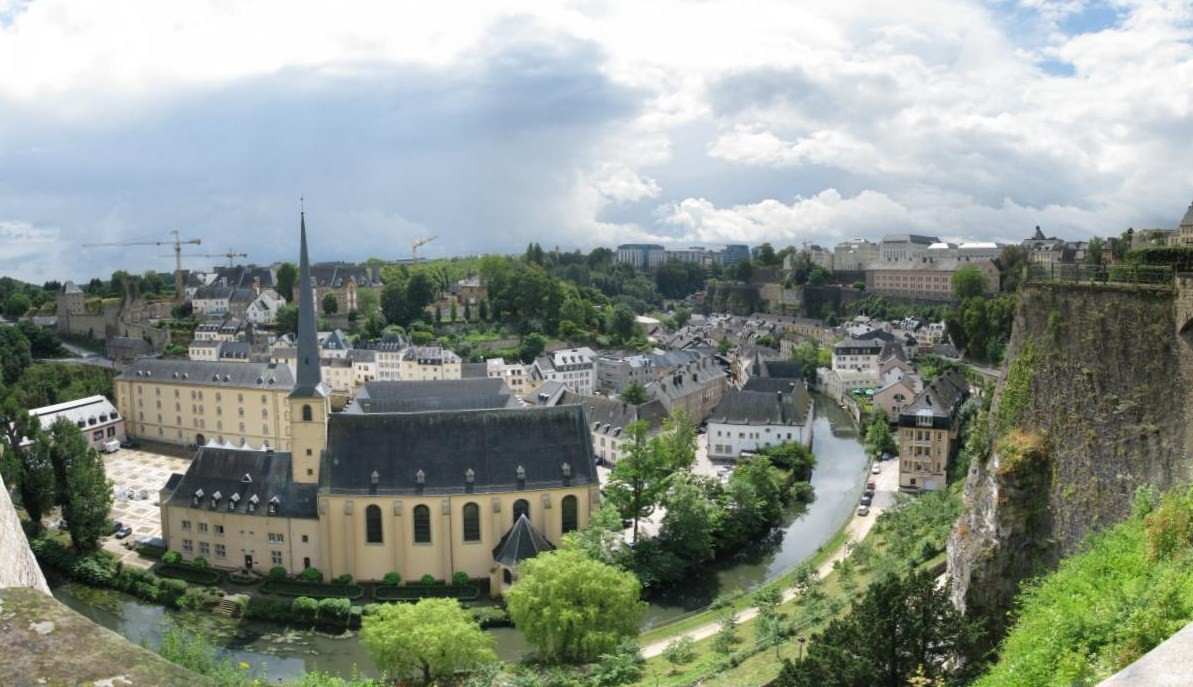 Grund, Luxembourg